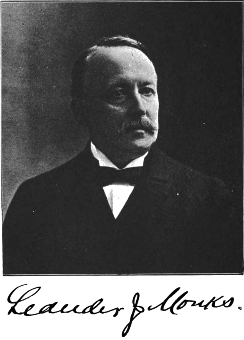 Indiana Supreme Court Justice Leander J. Monks, with signature.